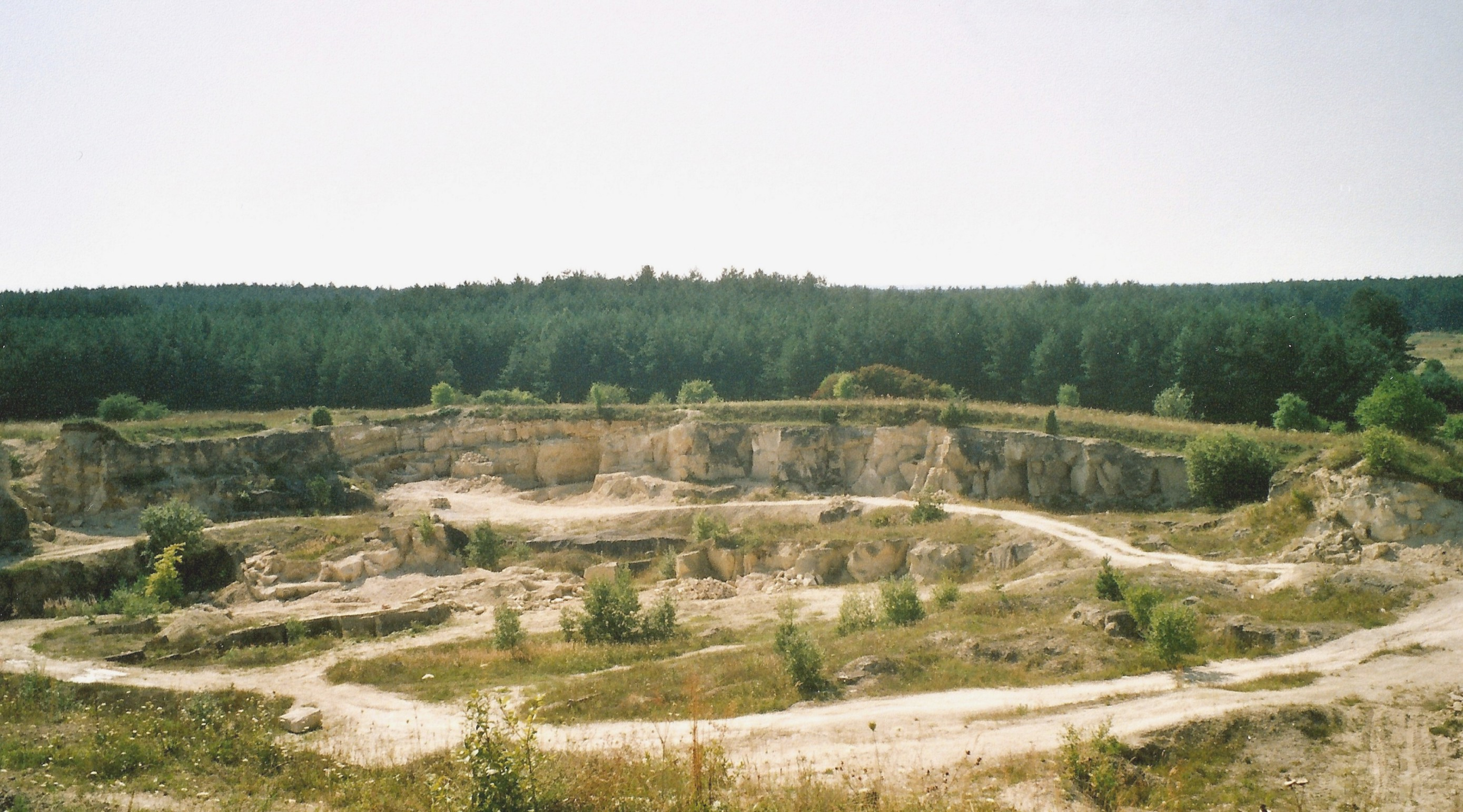 Józefów, Lublin Voivodeship; quarry